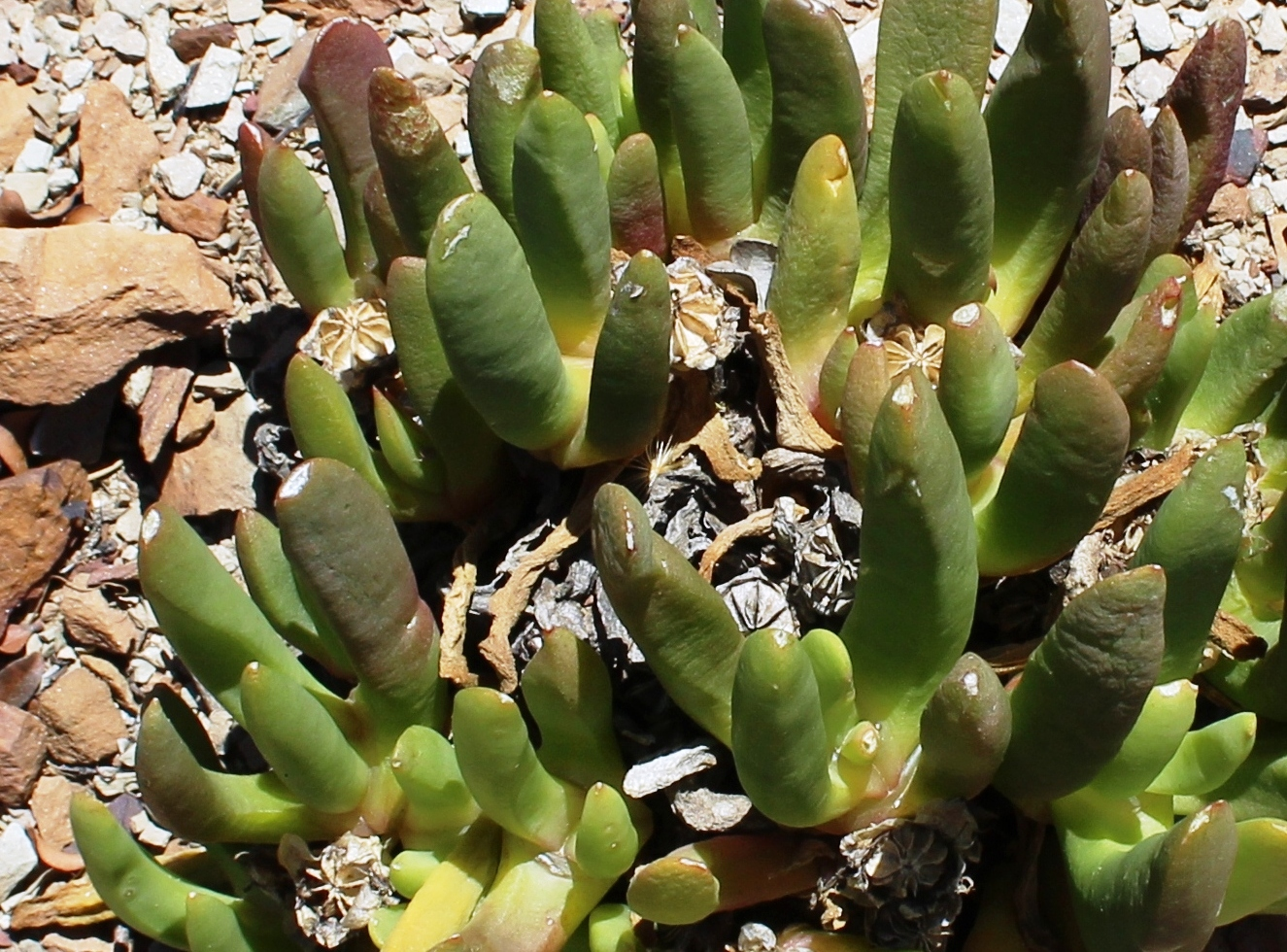 Glottiphyllum surrectum - Gamkapoort